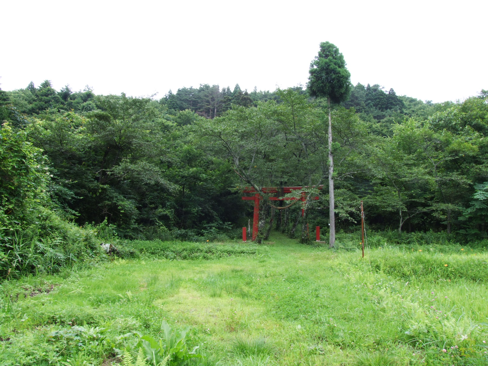 Torii of Enryū shrine. Sendai, Miyagi prefecture, Japan